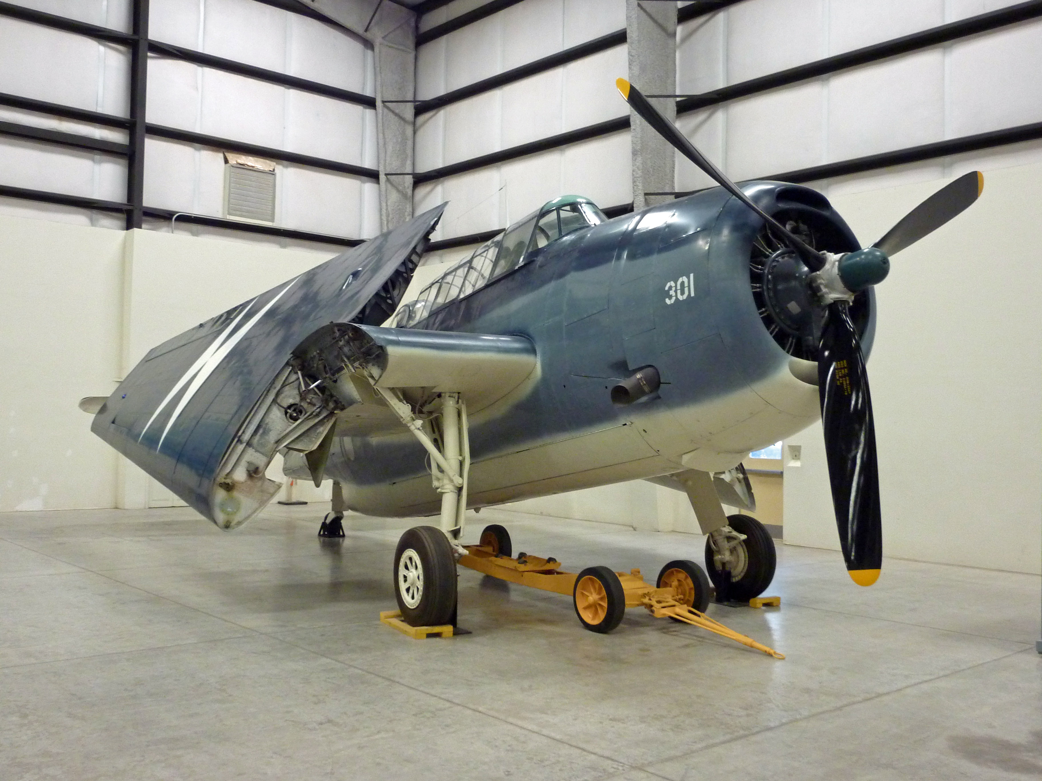 I had a chance to visit this great aviation and space museum in February 2011. This place is huge and it has a very extensive collection of airplanes - this is probably the largest collection I've ever seen in one place. Planes are stored in several hangers and also on a huge apron. If you are in the Tucson area and have any interest in aviation this is a must see stop!